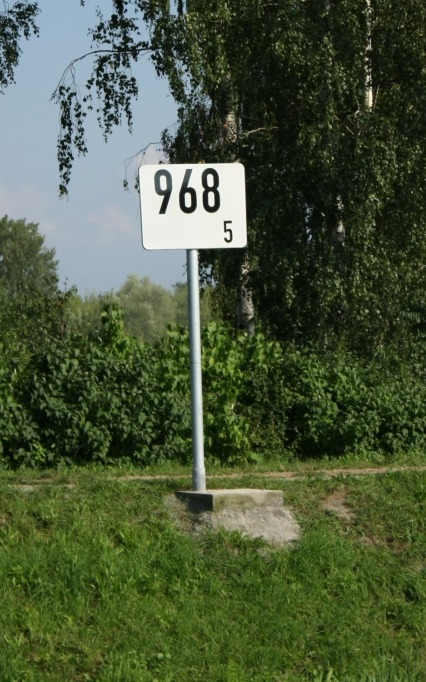 Milestone on river Labe near Pardubice, Czech Republic.